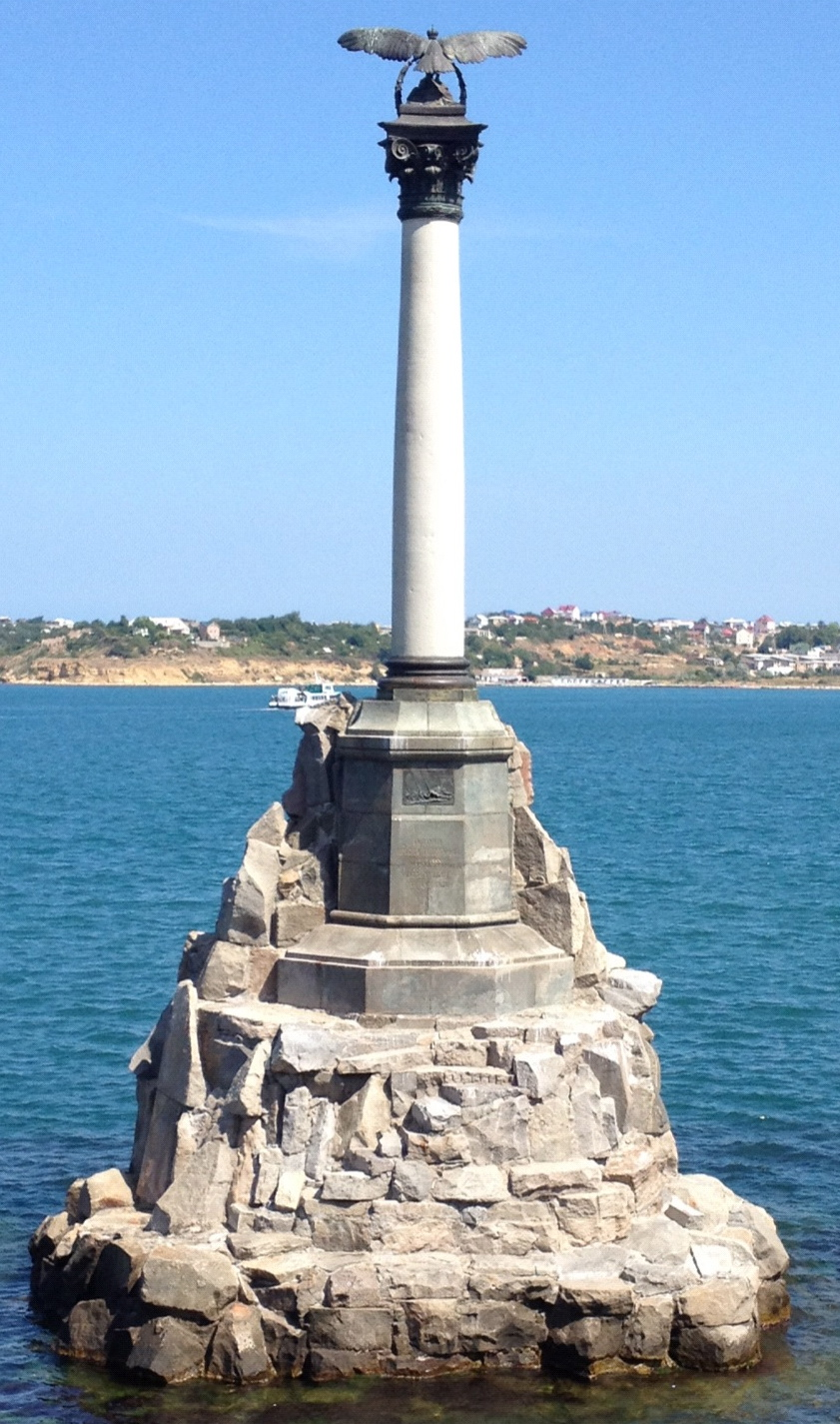 Monument to the Scuttled Ships by Amandus Adamson, just off the promenade at Sebastopol.